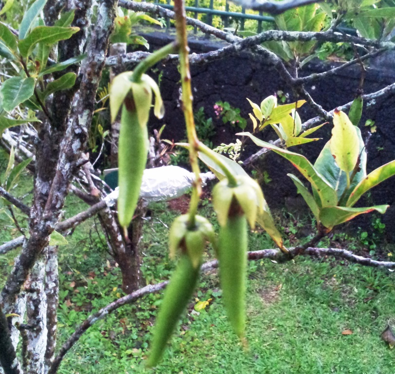 Elaeocarpus bojeri -seeds - Monvert, Mauritius